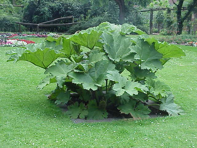 Species: Gunnera tinctoria Family: Haloragaceae Image No. 1